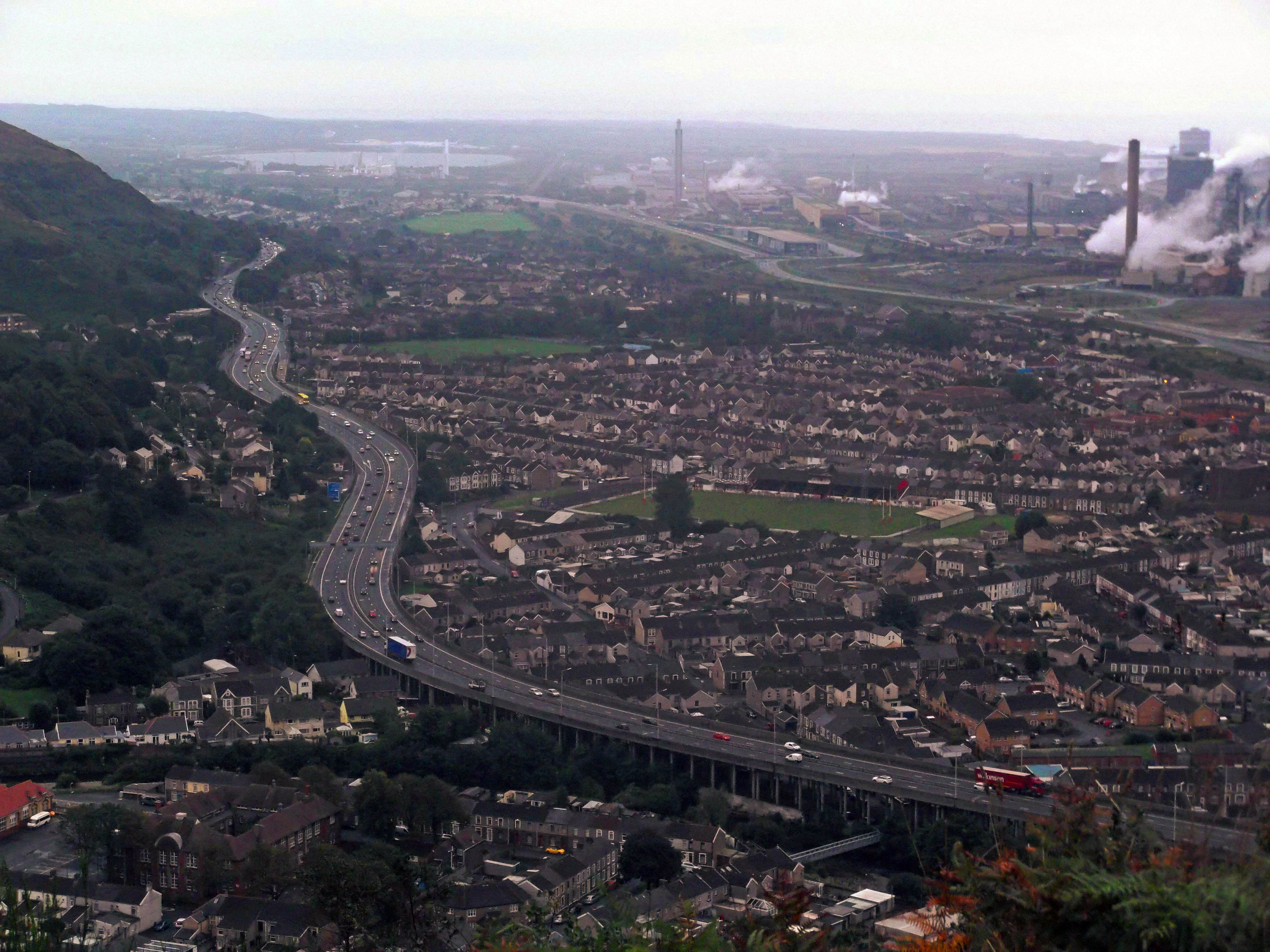 Port Talbot and the M4 from Mynydd Dinas